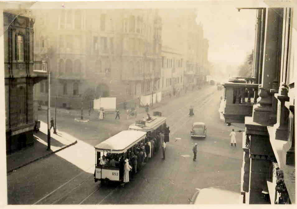 Early morning in Cairo, and a tram stops allowing passengers to alight and embus.